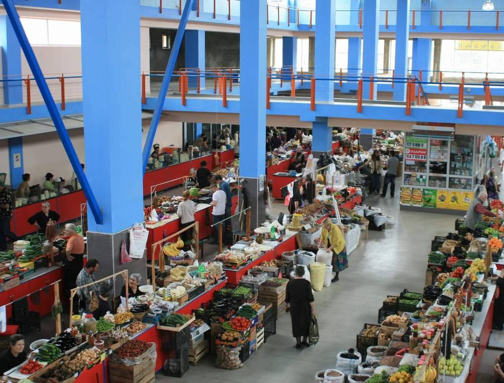 The new market of Ozurgeti from inside.